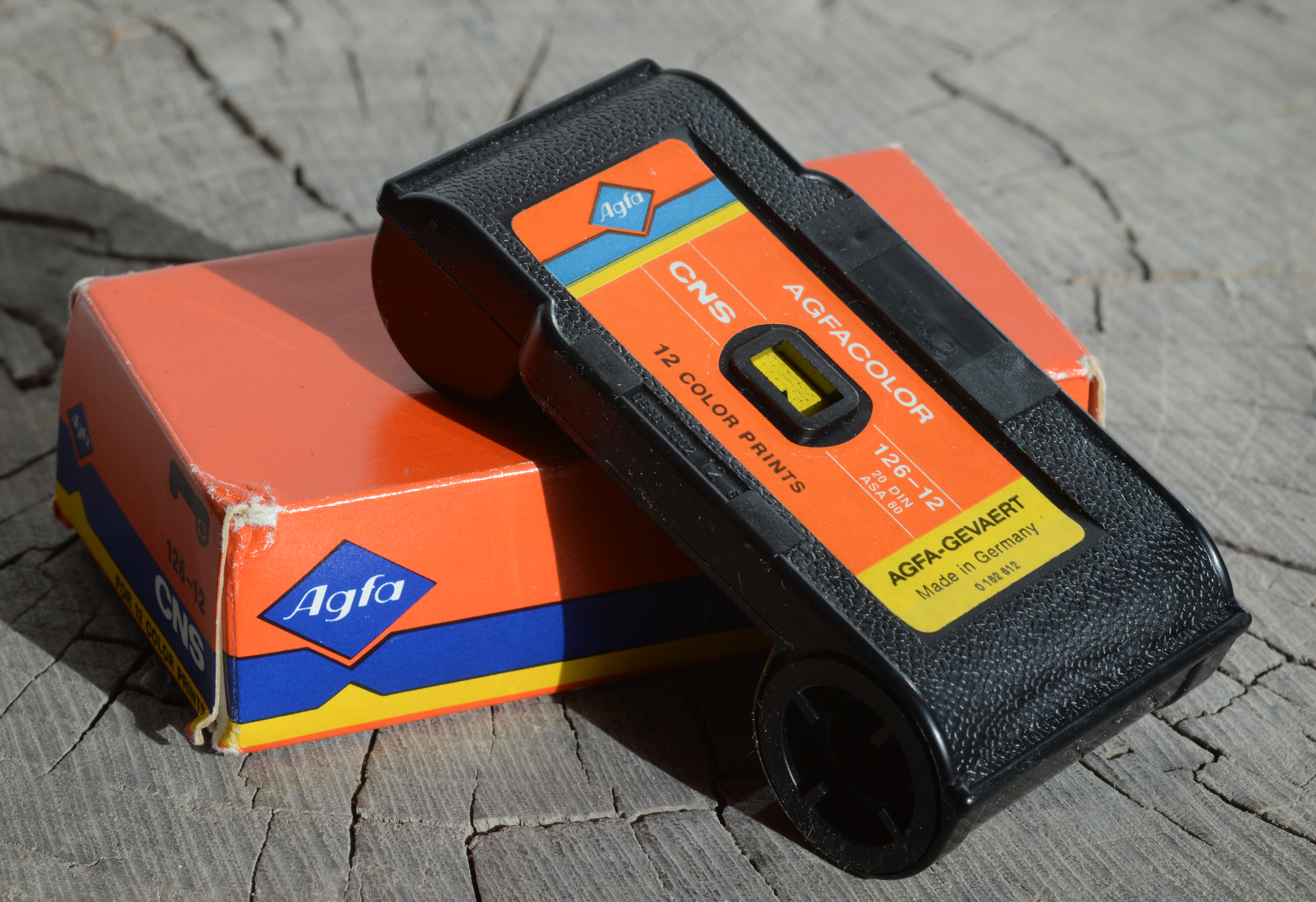 1983 expired Agfa-Gevaert CNS 126-12 126 film